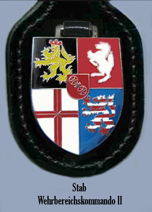 Internal coat of arms Stab Wehrbereichskommando II (WBK II) of the Bundeswehr (Armed Forces of the Federal Republic of Germany). → Remarks on naming and categorization scheme